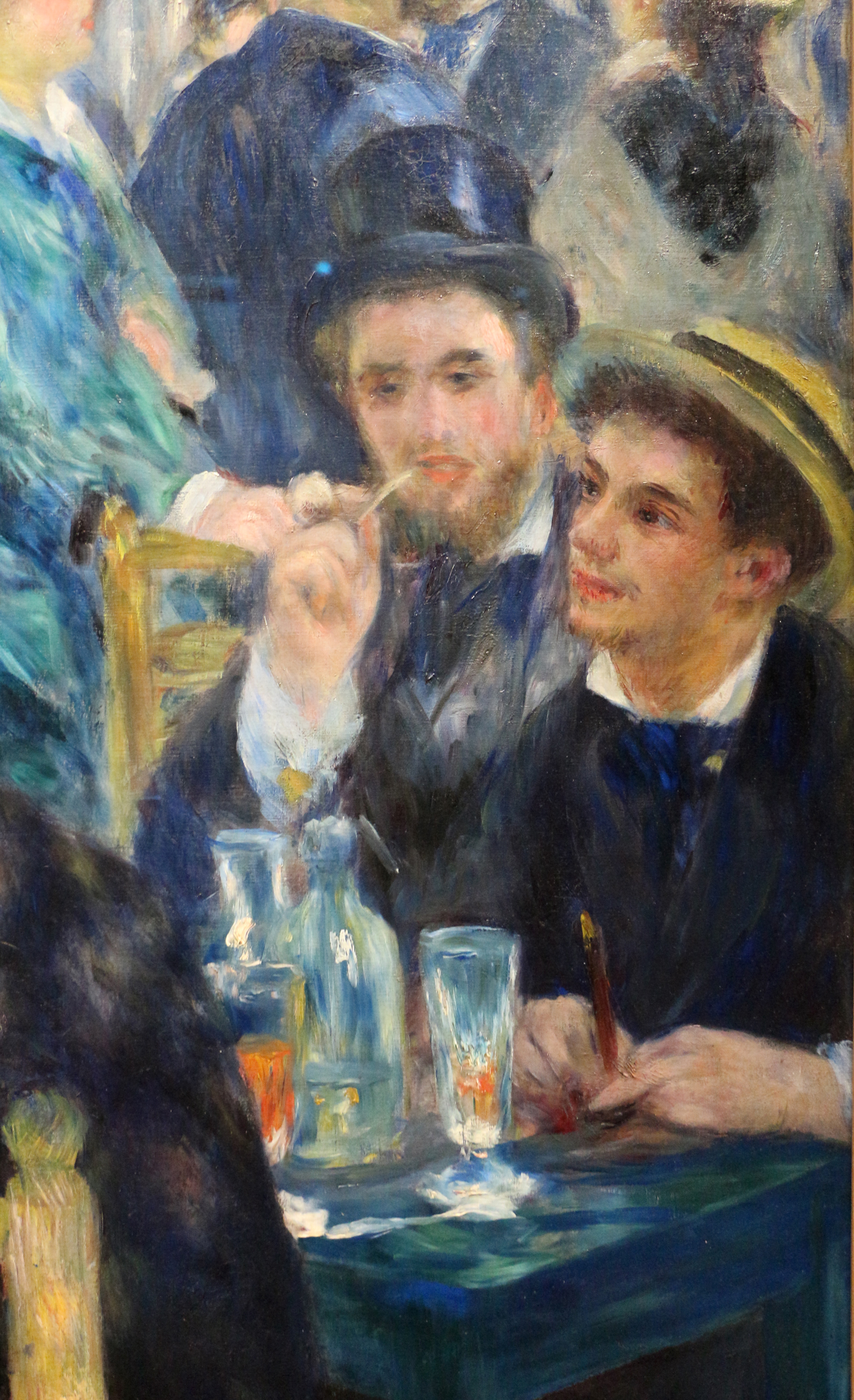 Bal du moulin de la Galette by Renoir